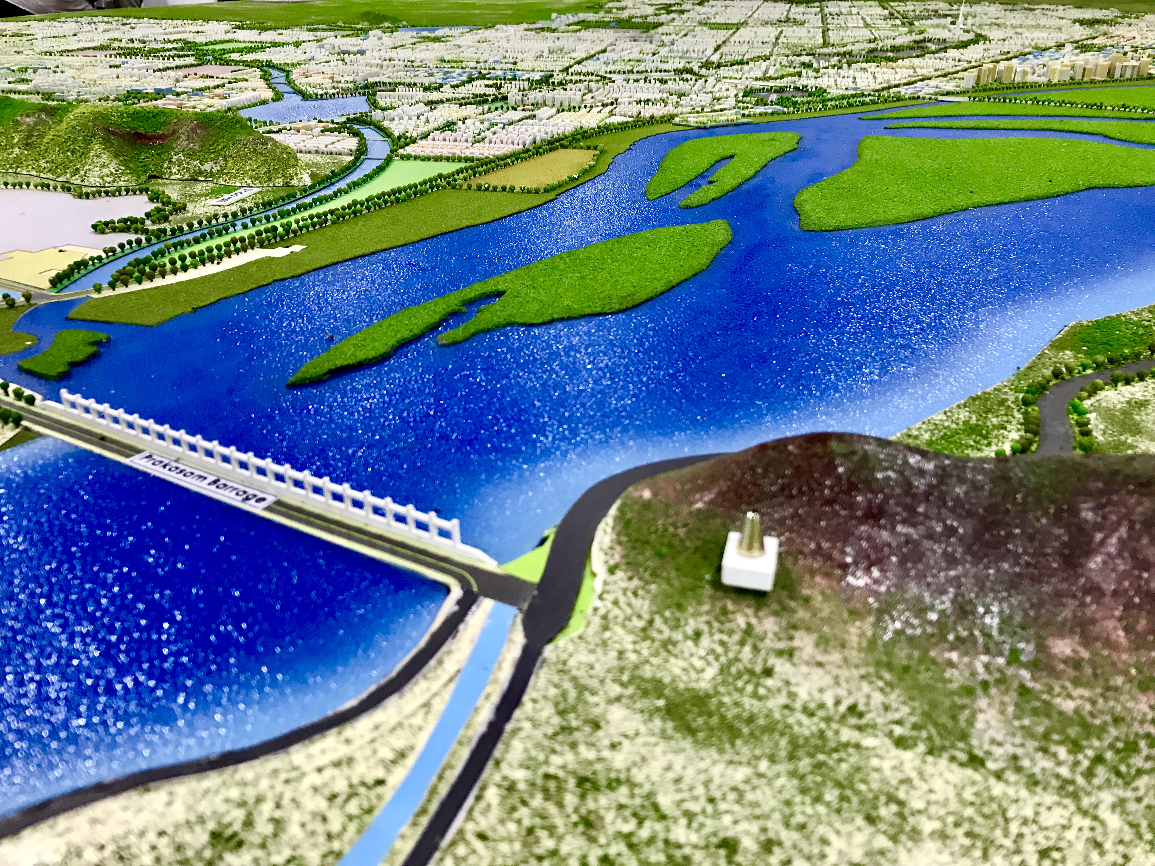 3D Model of Amaravati in APCRDA office, Vijayawada